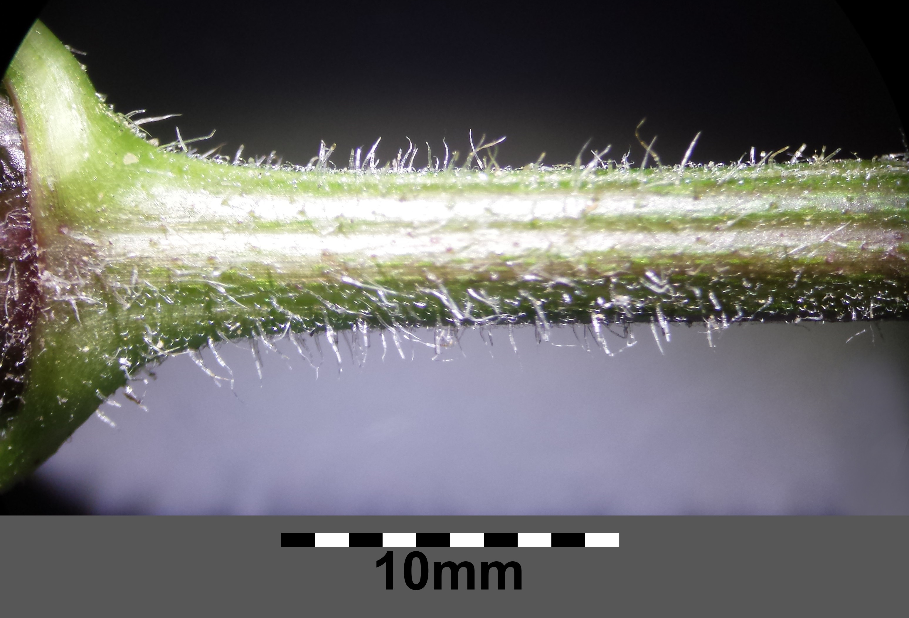 Stipe with hairs Taxonym: Galinsoga ciliata ss Fischer et al. EfÖLS 2008 ISBN 978-3-85474-187-9 Location: near Steinberg near Niederhollabrunn, district Korneuburg, Lower Austria - ca. 300 m a.s.l. Habitat: wine yard